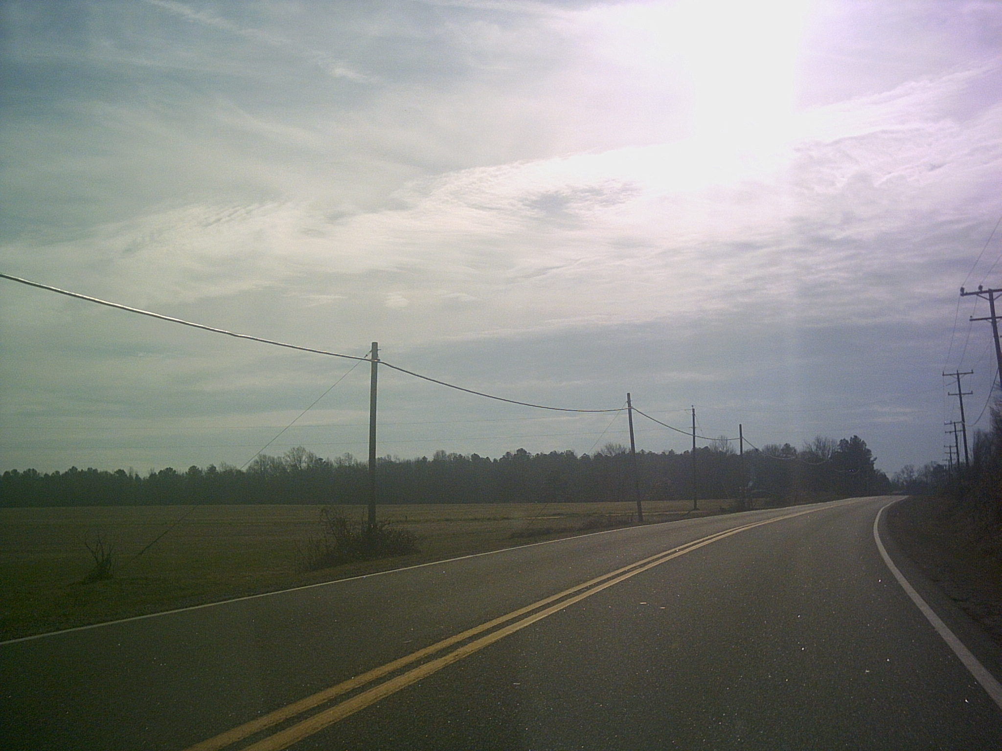 Road near Lerty, Virginia